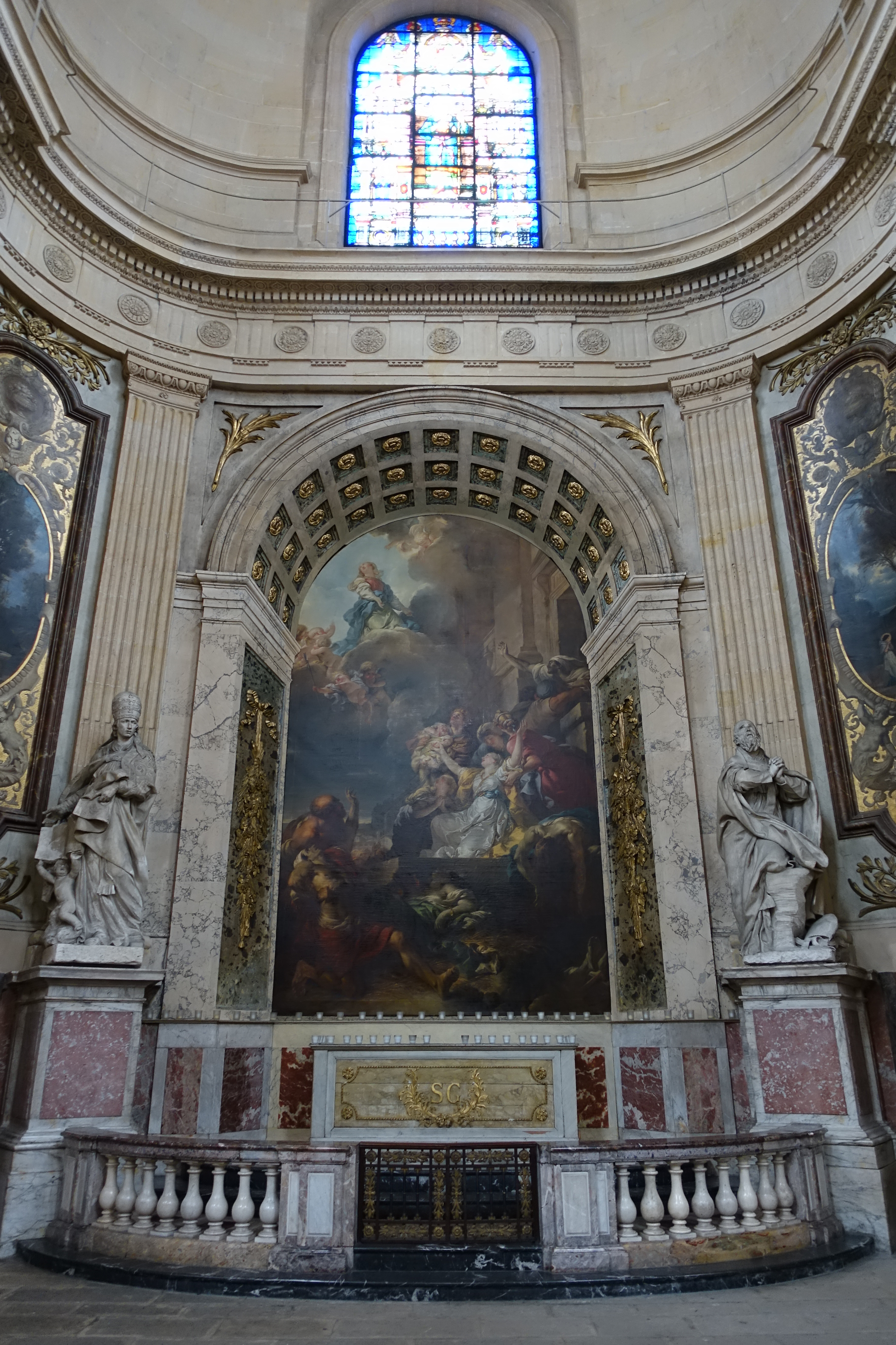 Église Saint-Roch, 296 Rue Saint Honoré, 75001 Paris, France.